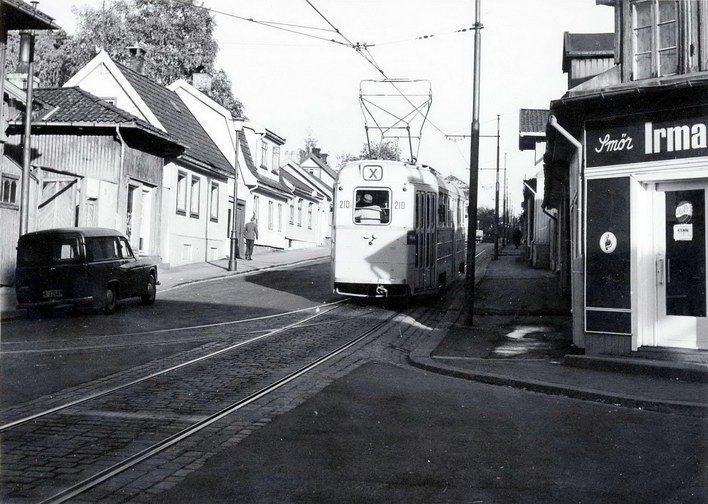 Høka SM83 MBO in Vålerenggata on the Vålerenga Line.